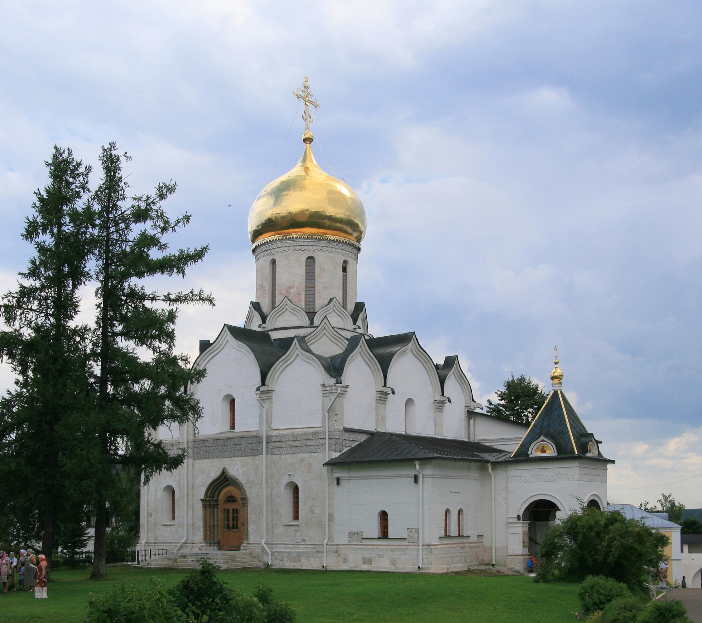 The Church of the Nativity of the Theotokos in Savvino-Storozhevsky Monastery, 1396-1399